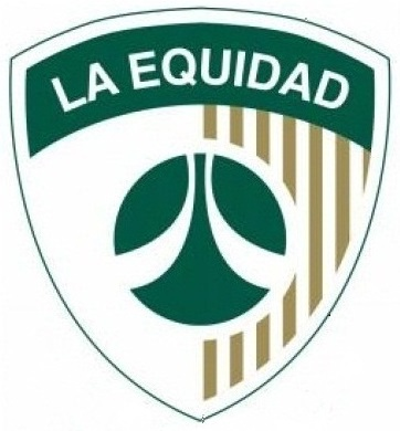 Nederlands